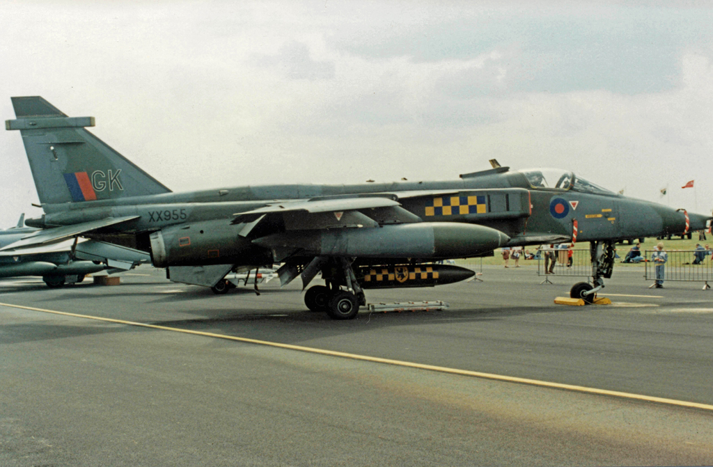 SEPECAT Jaguar GR.1A XX955 GK of 54 Squadron RAF at Boscombe Down in 1990